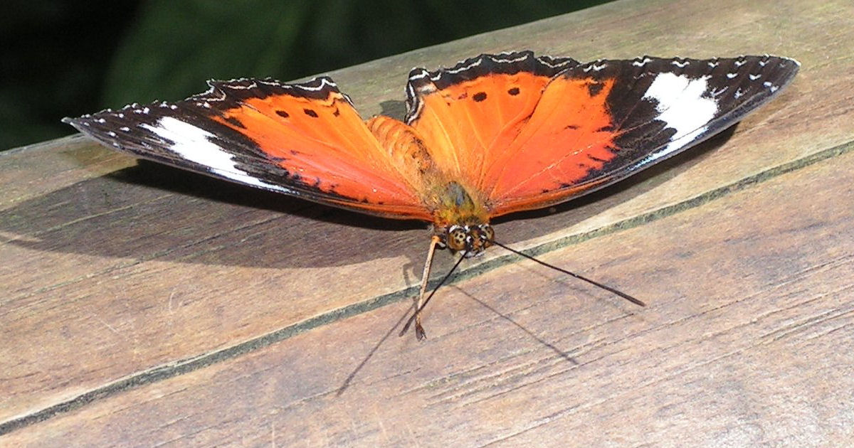 Orange Lacewing (Cethosia penthesilea paksha) taken in Cairns, Queensland, Australia